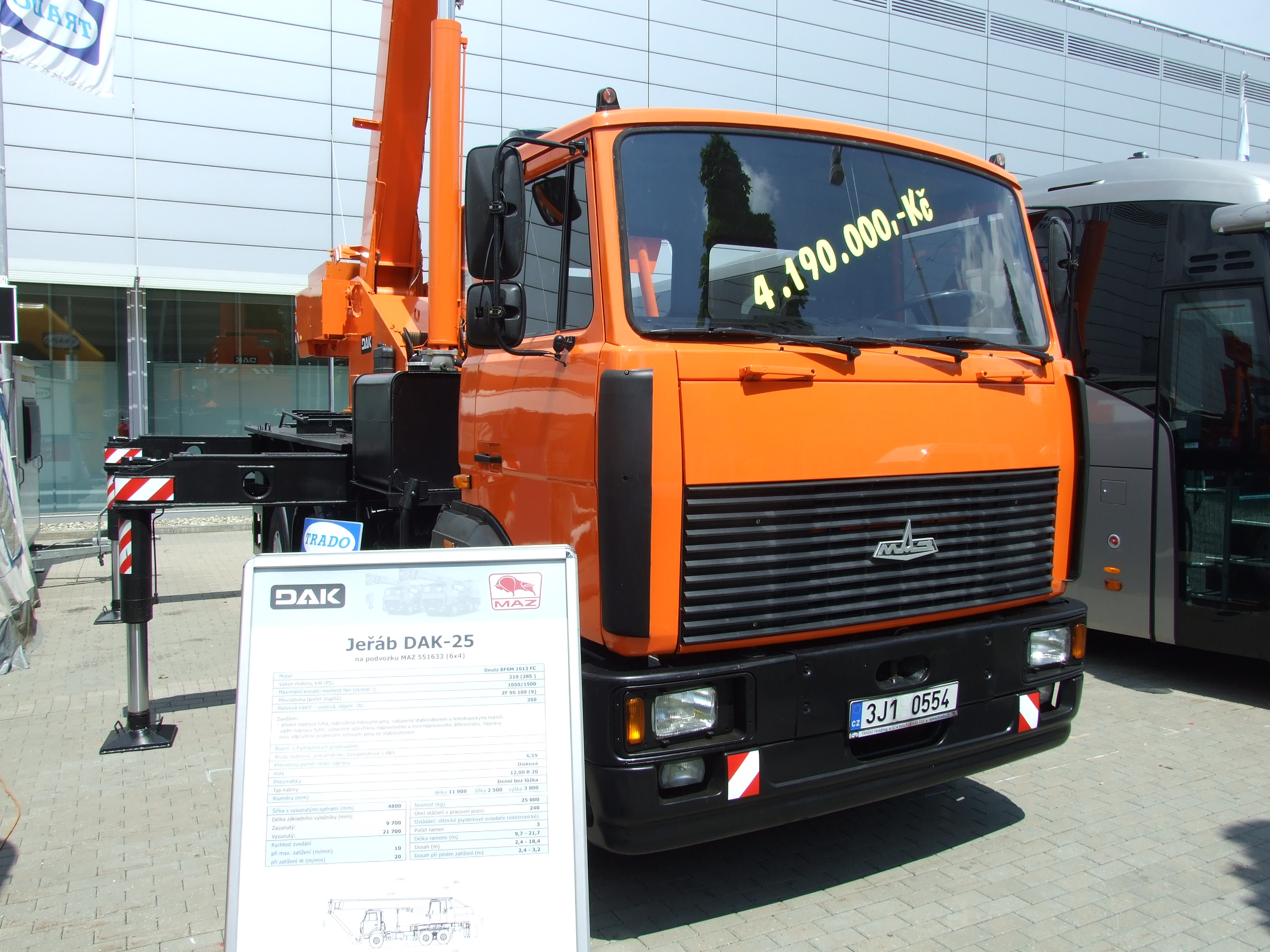 12th Autotec bus/truck/car fair in Brno, CZ